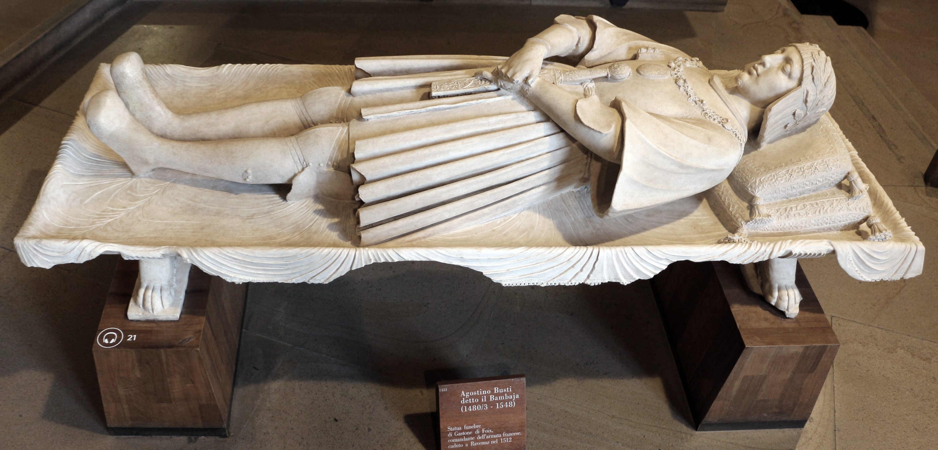 Museo d'arte antica (Milan) - 16th-century sculptures